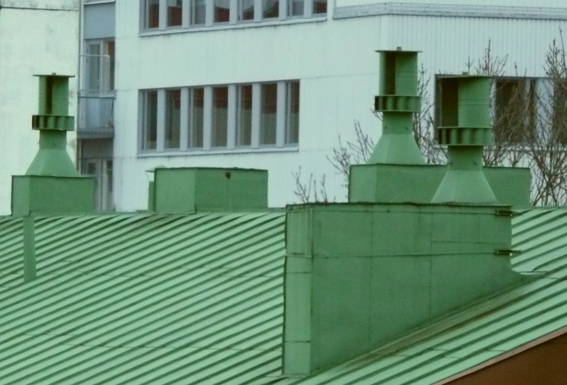 Savonius rotors in actual use: on top of air ducts of a residential building in Tampere, Finland.